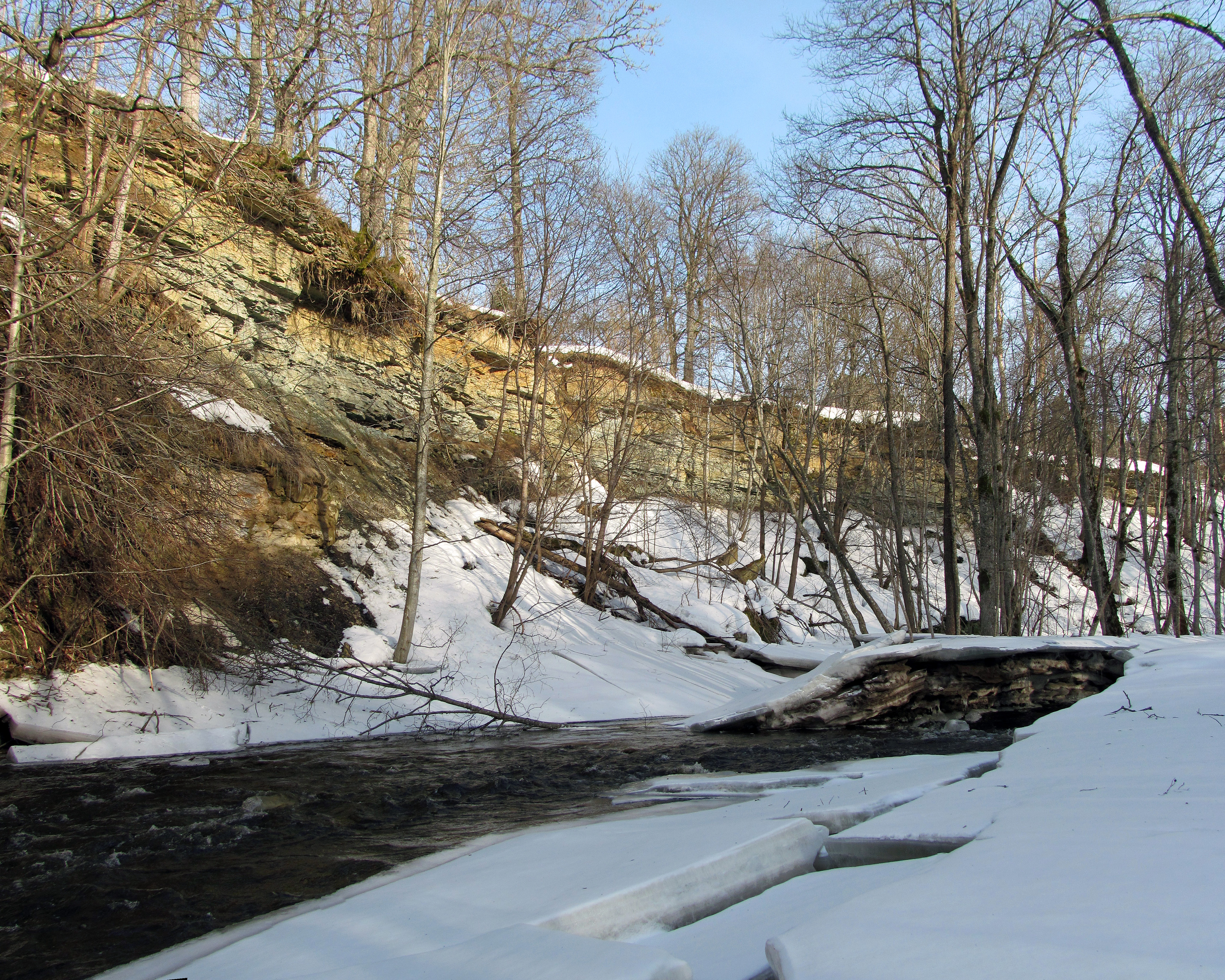 Valgejõgi at Nõmmeveski, Lahemaa National Park, Estonia.